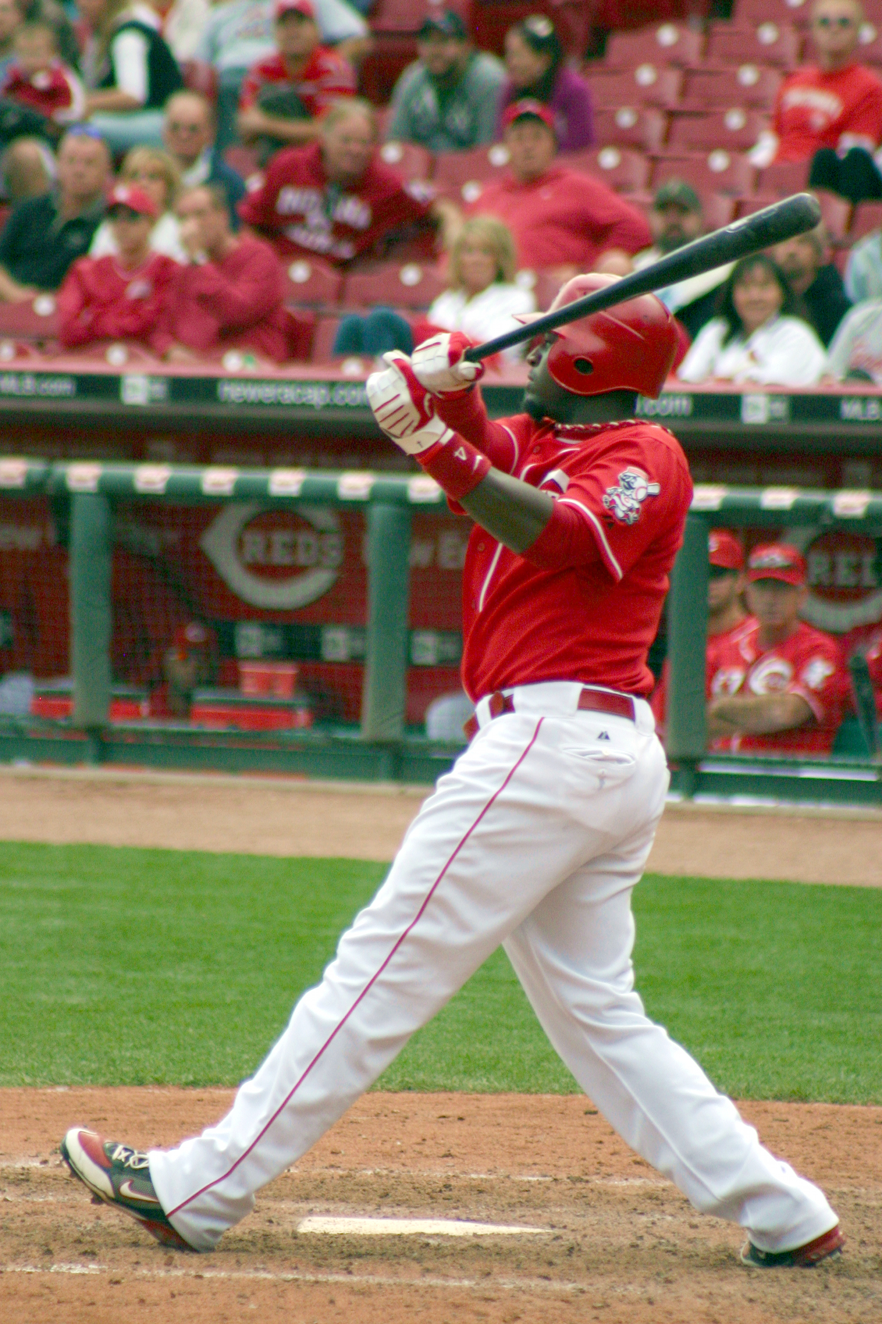 Brandon Phillips batting against St. Louis at Great American Ball Park on October 1, 2009.